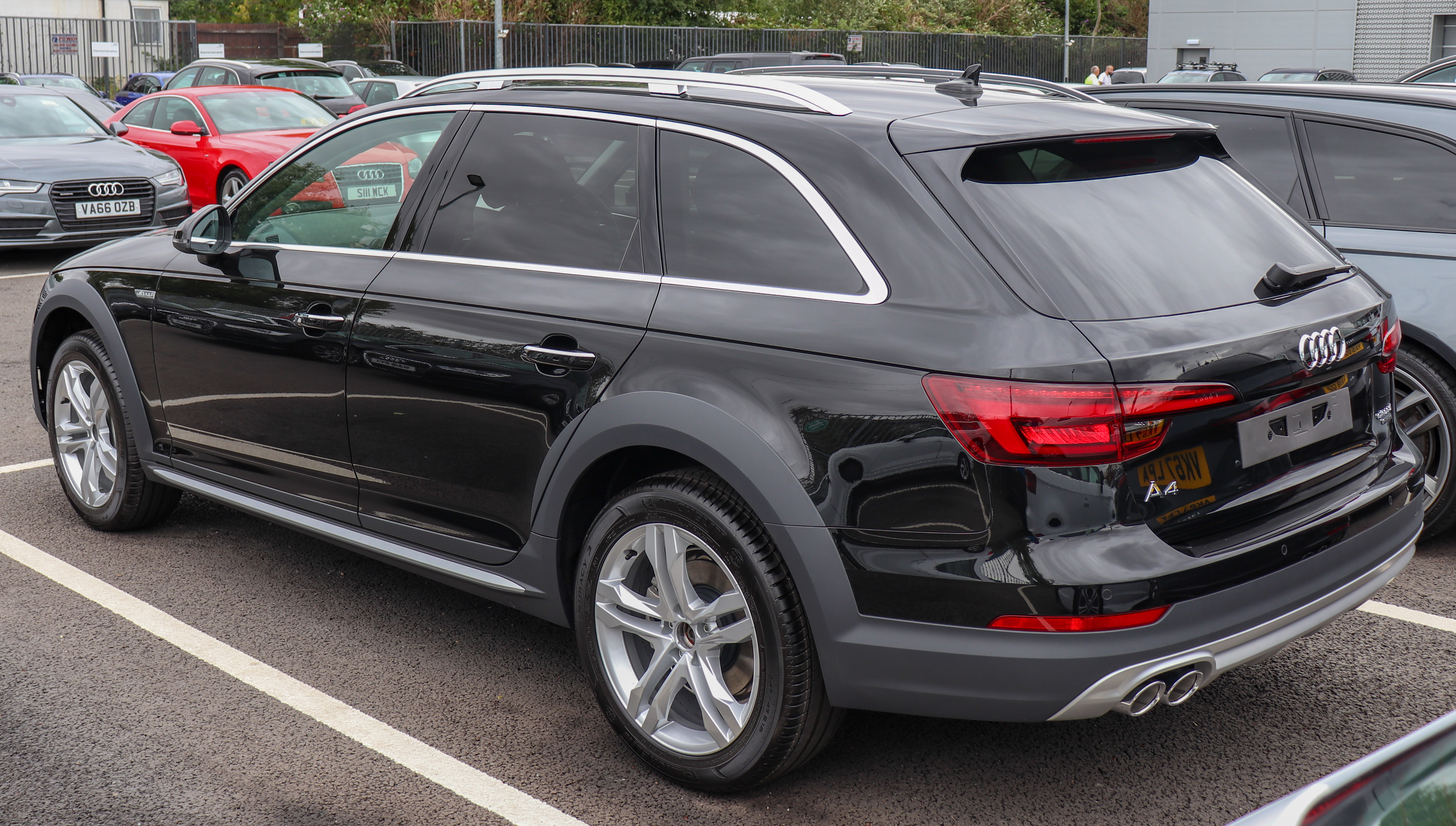 2018 Audi A4 Allroad Quattro Rear Taken in Stratford-upon-Avon